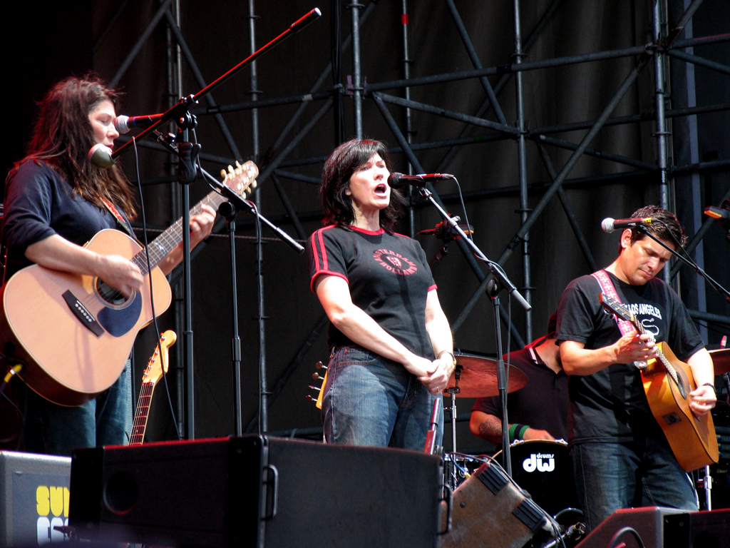 The Breeders, Summercase, Barcelona, julio 2008